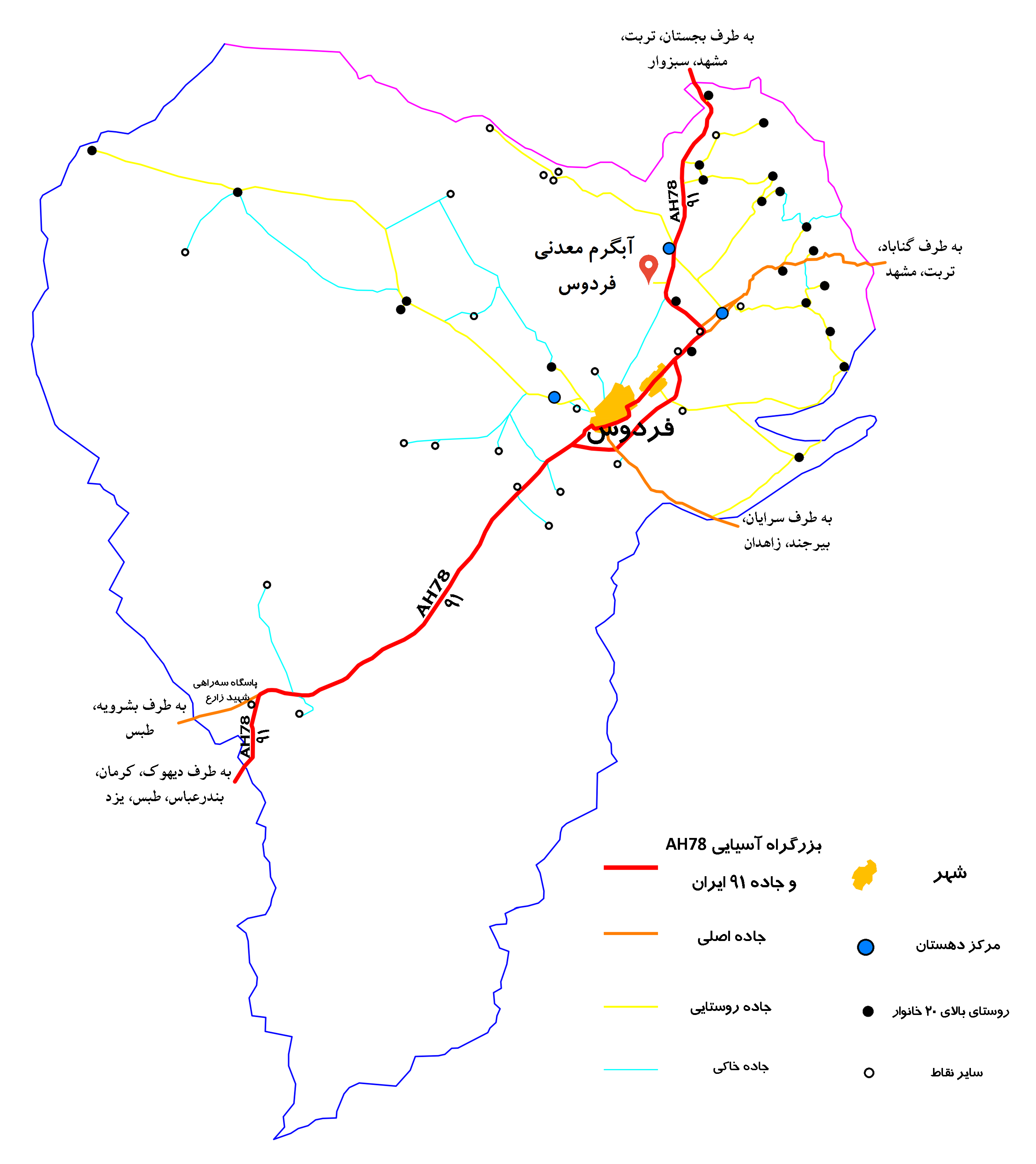 Location of Ferdows Hot Spring on the map of Ferdows County.